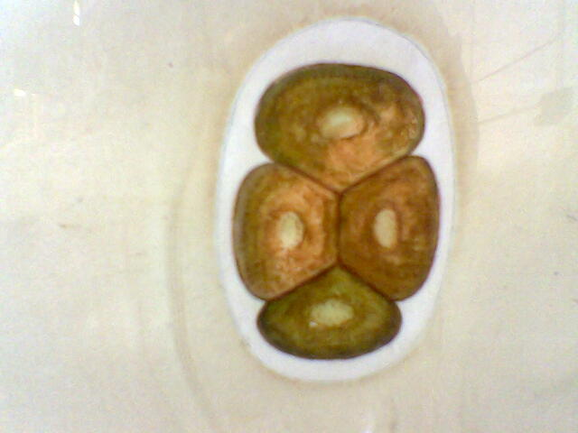 egg of Ancylostoma duodenale